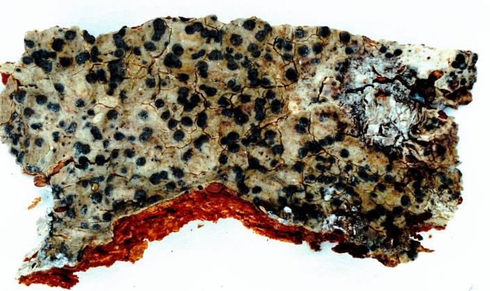 Pyrenula pseudobufonia (Rehm) R.C. Harris, 1985 Photograph of a herbarium specimen. Pyrenula pseudobufonia was growing on bark on Lead Mine Mountain along the trail next to the Washington-Hancock County Line, Maine, USA (Lat. 44o51.470' N, Long. 68o05.914 W); collected by E.C. Uebel, identified by Dr. David H.S. Richardson (No. U-158, 13 Jun 2001).